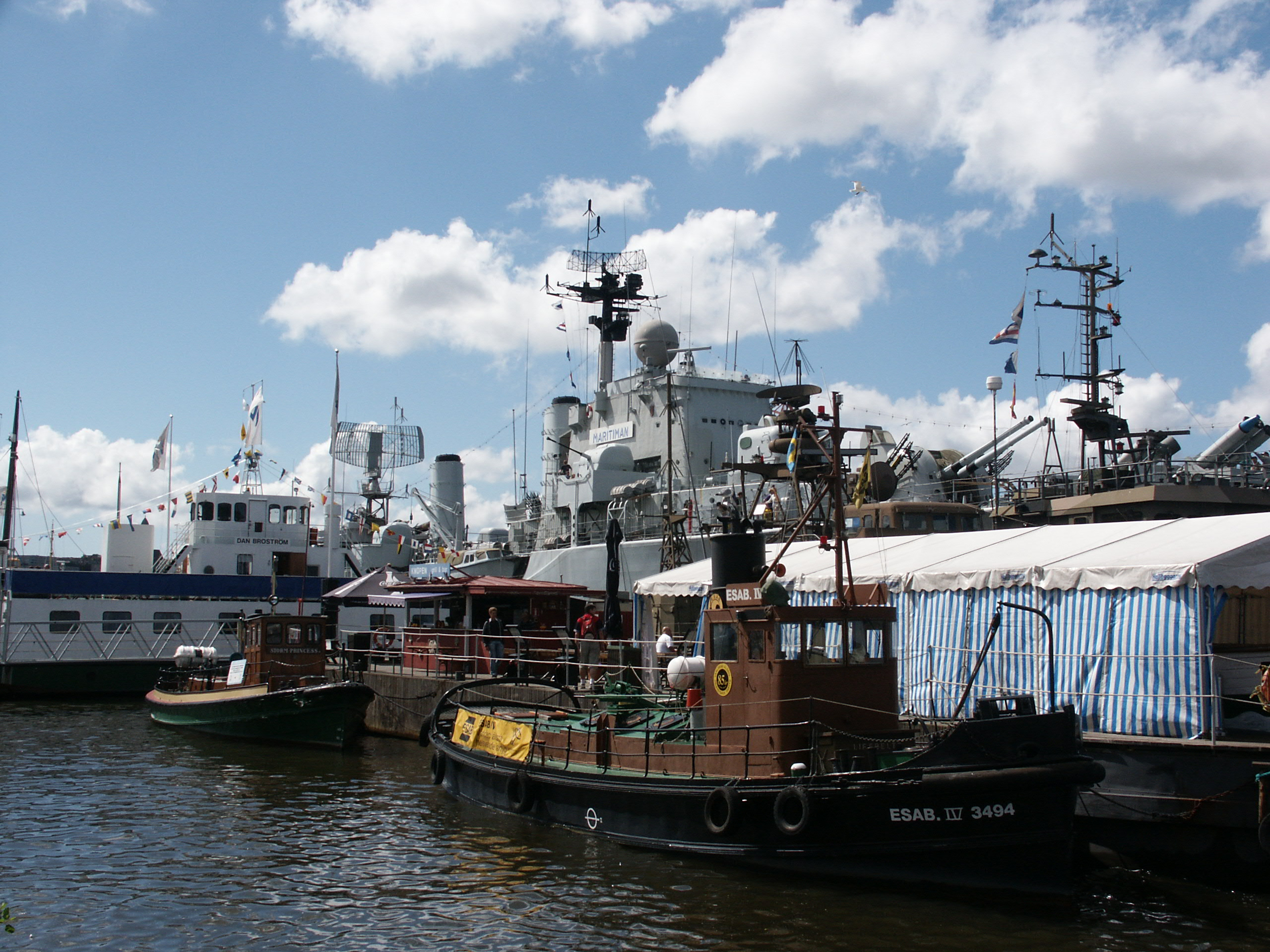 The Maritime centre, Gothenburg, Sweden This is an image of the protected Swedish ship Esab IV, with call sign SKAQ . This is an image of the protected Swedish ship Stormprincess, with call sign SHAO .